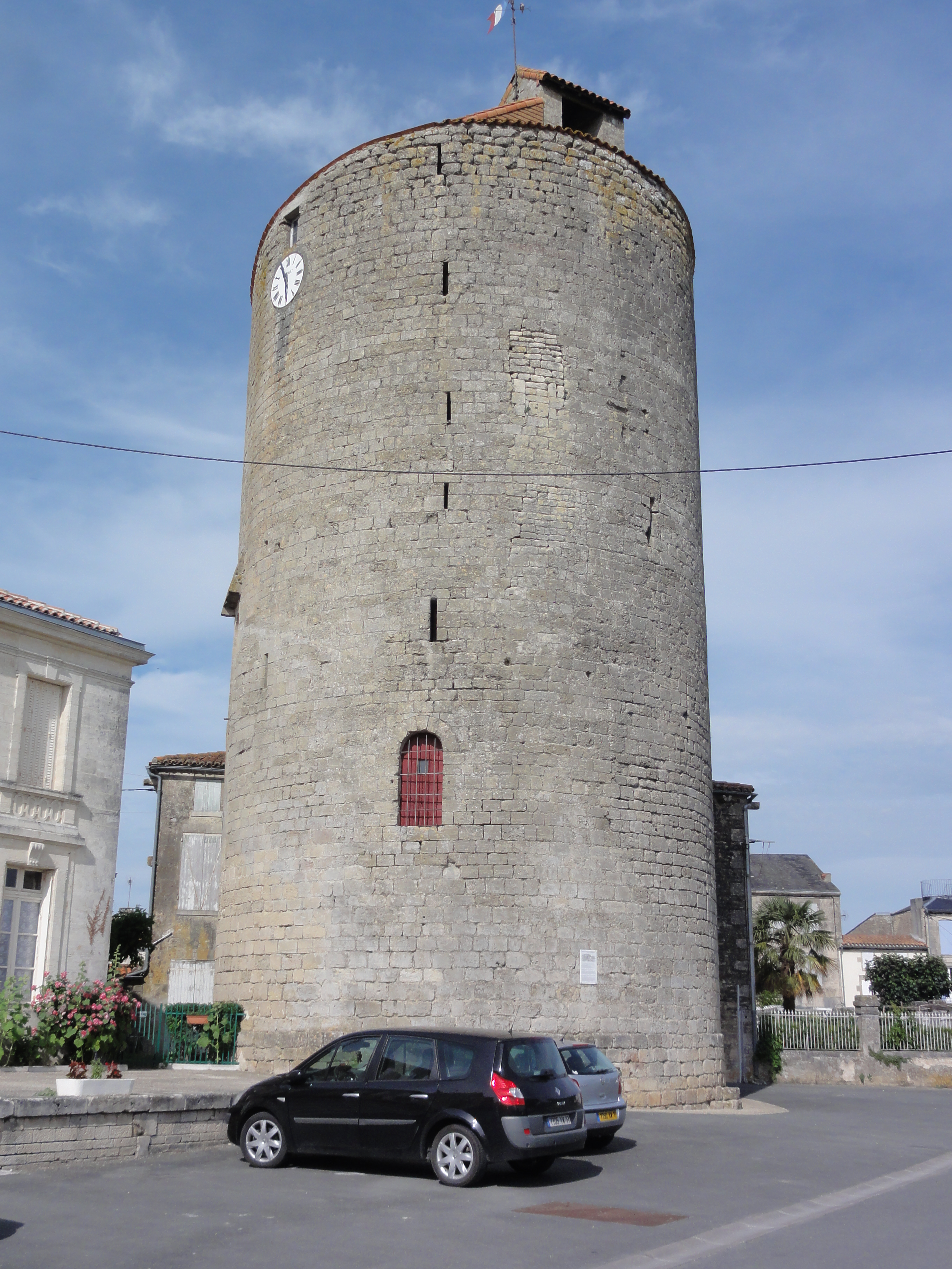 Aulnay-de-Saintonge, tour du château .